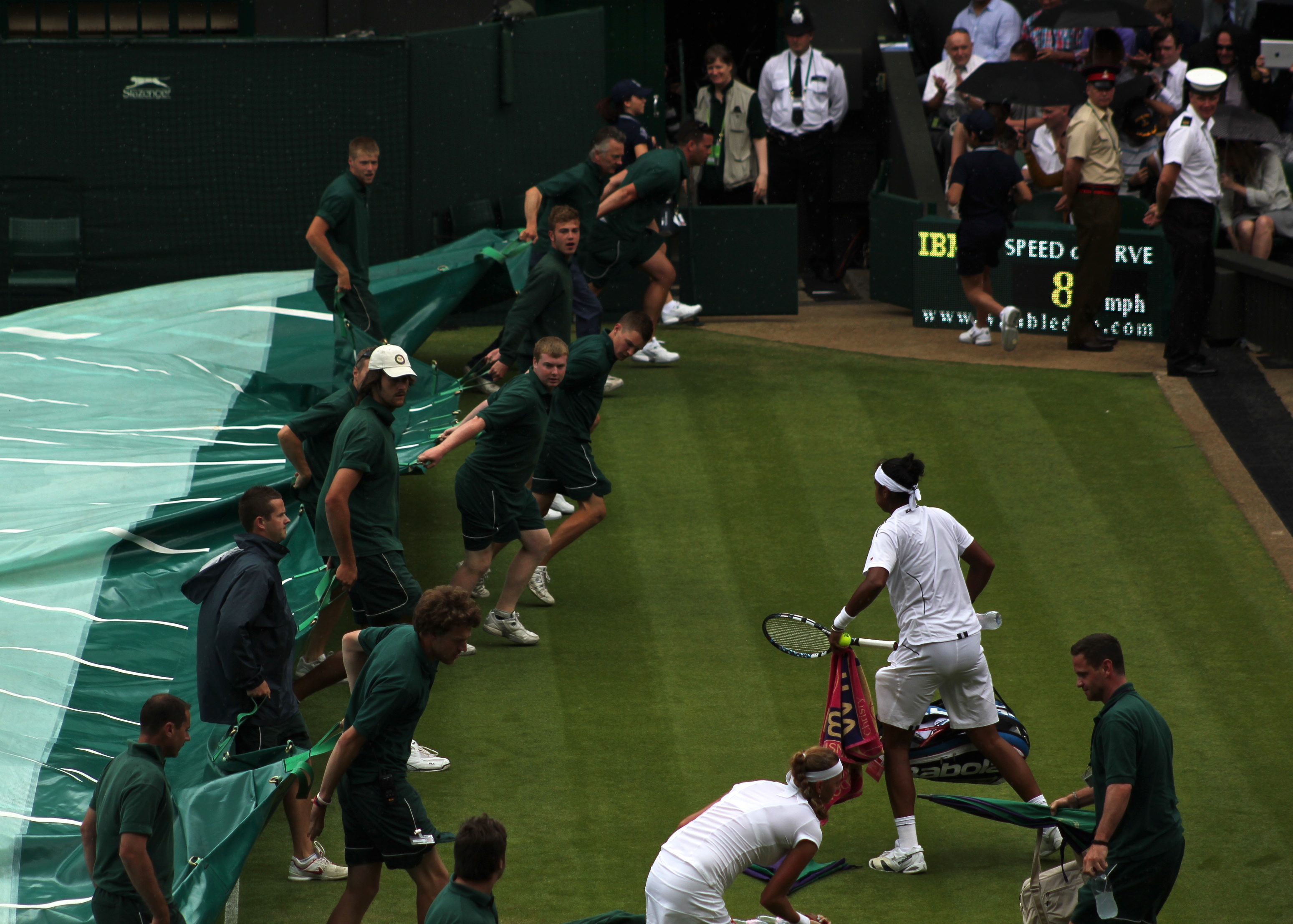 Players grab and run as the covers come on centre court.